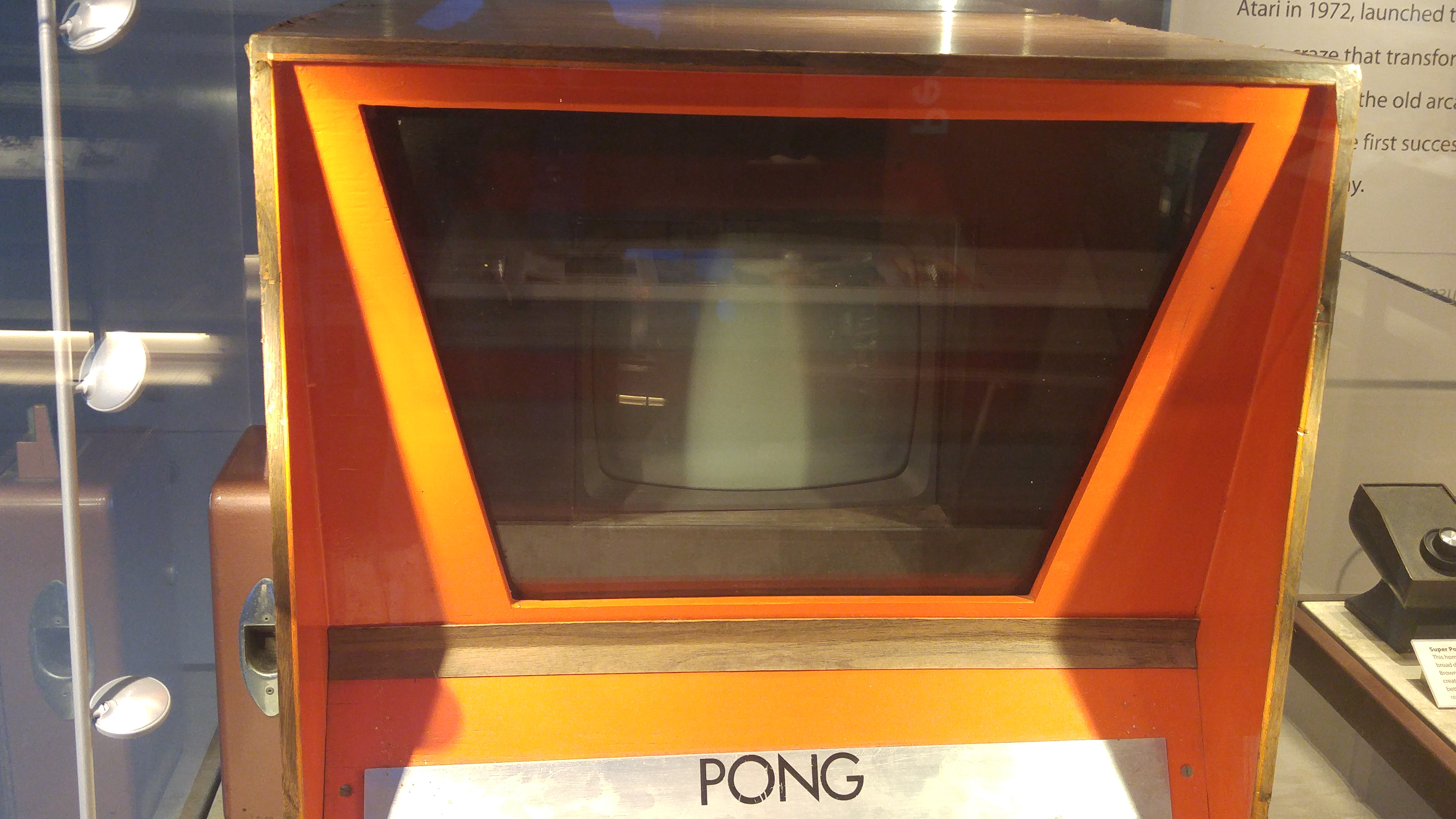 This is the actual Pong prototype that was used at Andy Cap's tavern